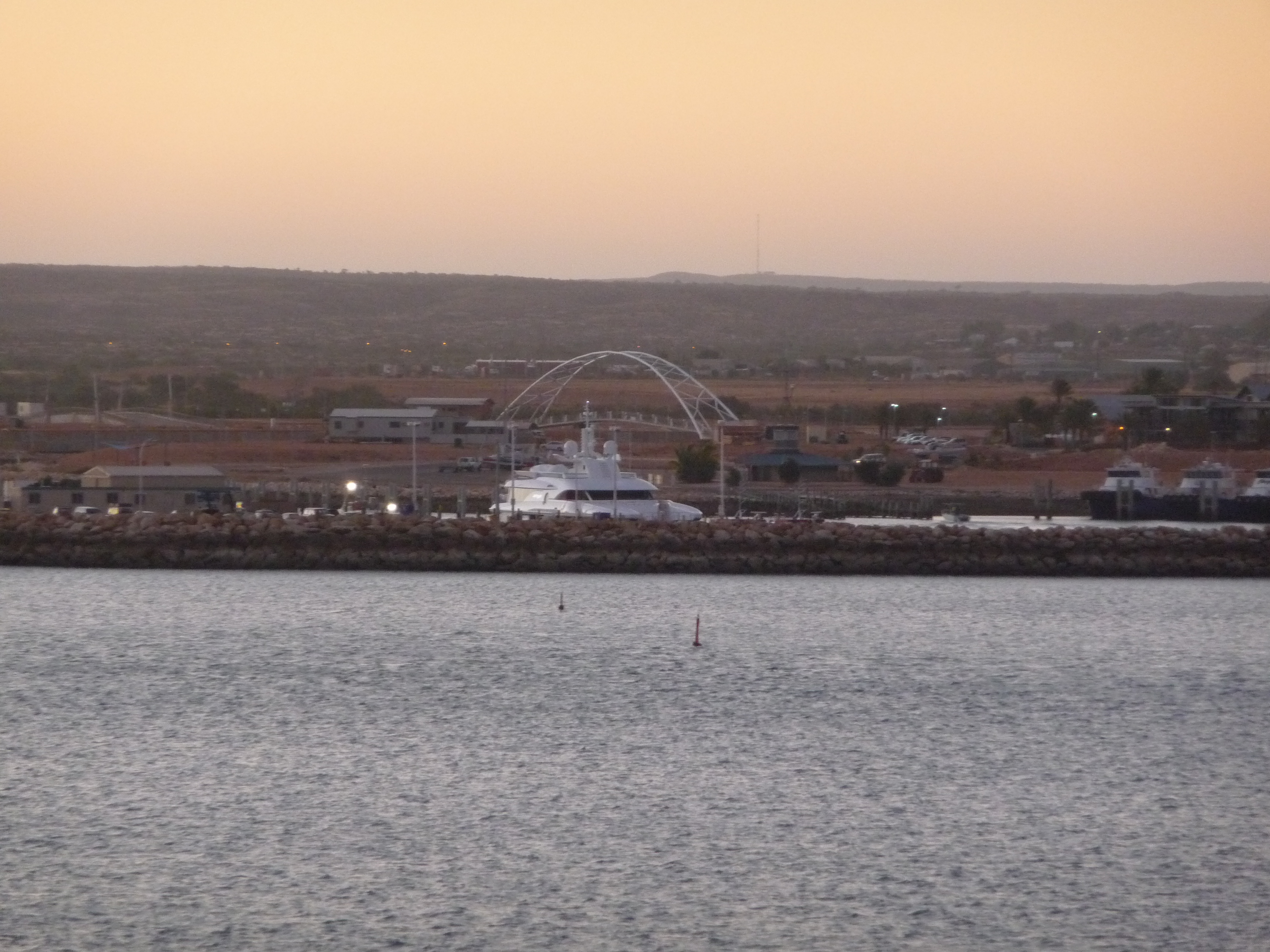 The Exmouth boat harbour at sunset from the T'gallant yard of the STS Young Endeavour.